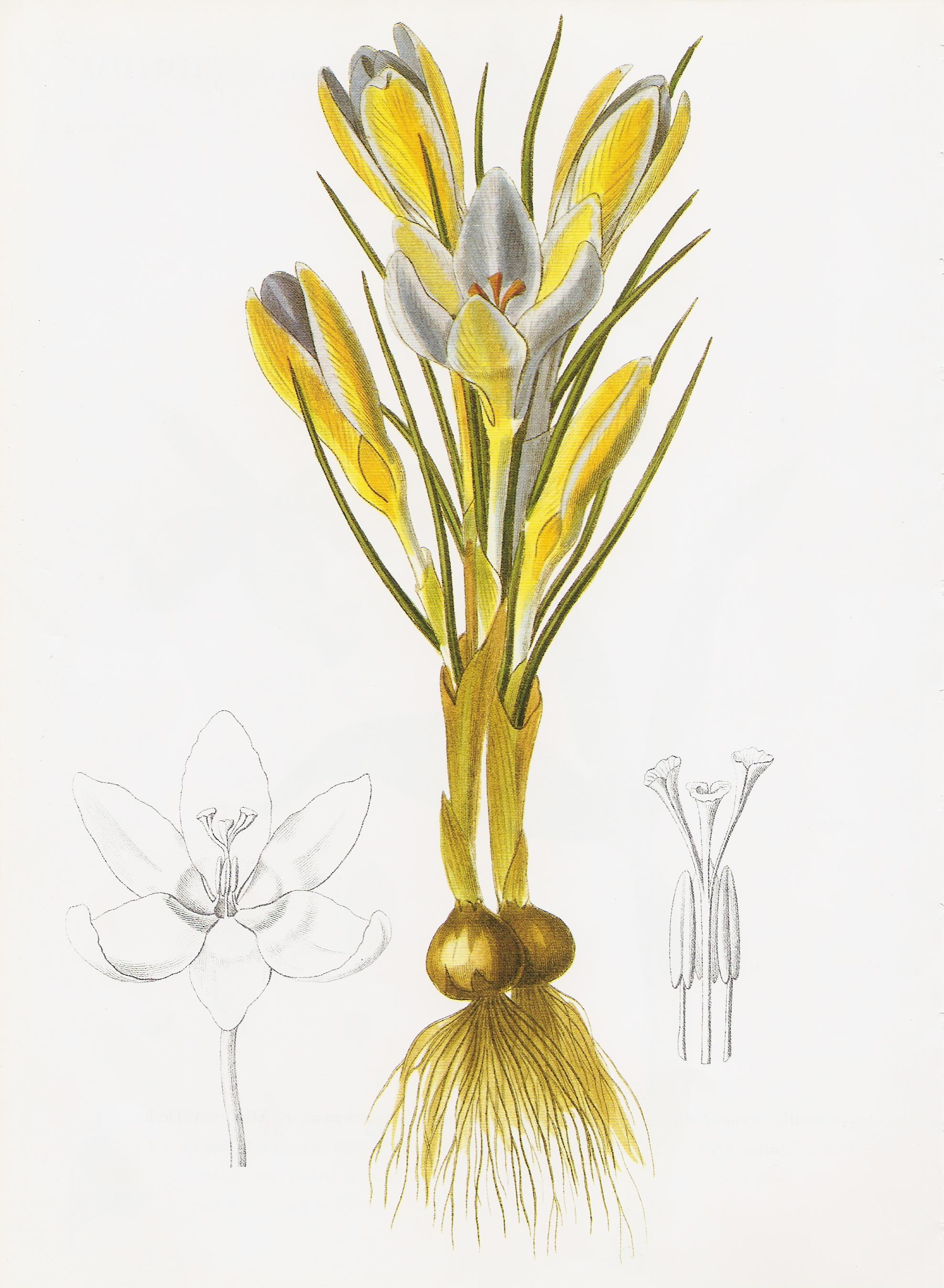 Crocus pusillus (now C. biflorus), a hand-coloured engraving after a drawing by Miss S. A. Drake (fl. 1820s-1480s), from the 23rd volume of the Botanical register (1837), edited by John Lindley